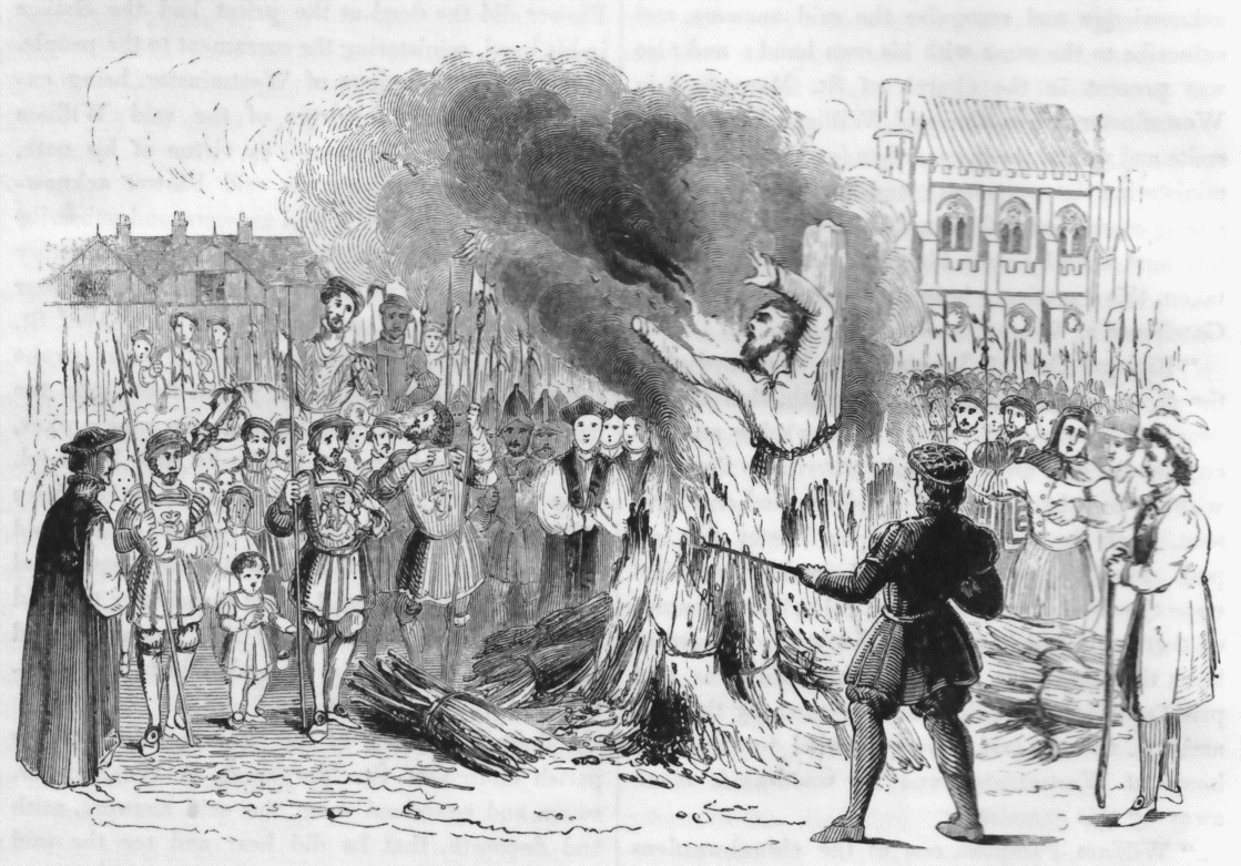 The execution of William Flower for heresy, at St Margaret's Church, Westminster